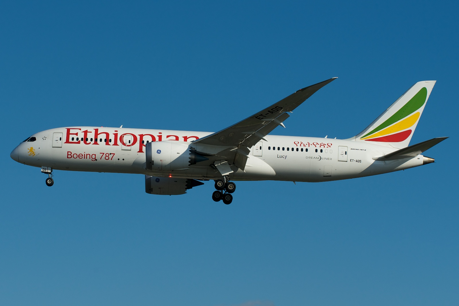 "Lucy" on short final into YYZ